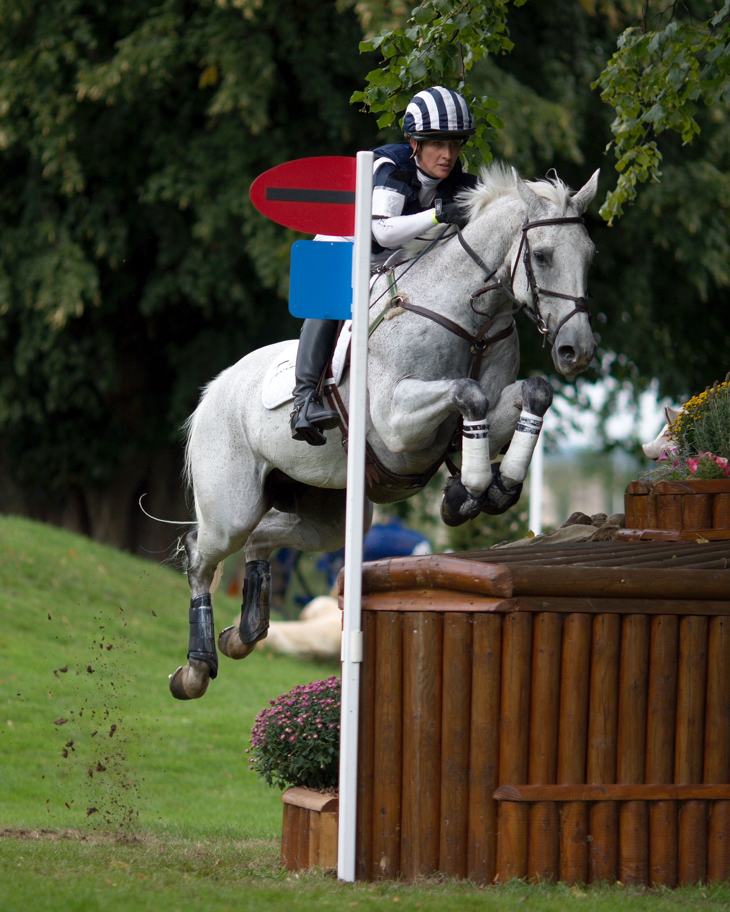 Caroline Powell and Lenamore, winners of Burghley Horse Trials 2010, at the Dairy Farm during the cross-country phase.